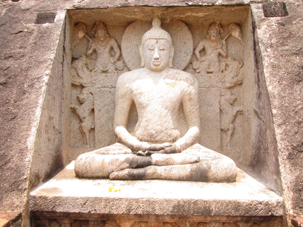 This Buddha statue at Tantirimale represents the Samadhi attitude of Buddha” seated under a Makara Torana. The robe clinging to the body covering one shoulder is described as “ekansa parupana”. There is evidence of an image house that had been there enclosing the Buddha statue. The two figures fanning the Buddha, found on the upper ends of the Makara Torana represents deities. (8-9 centuries AD)